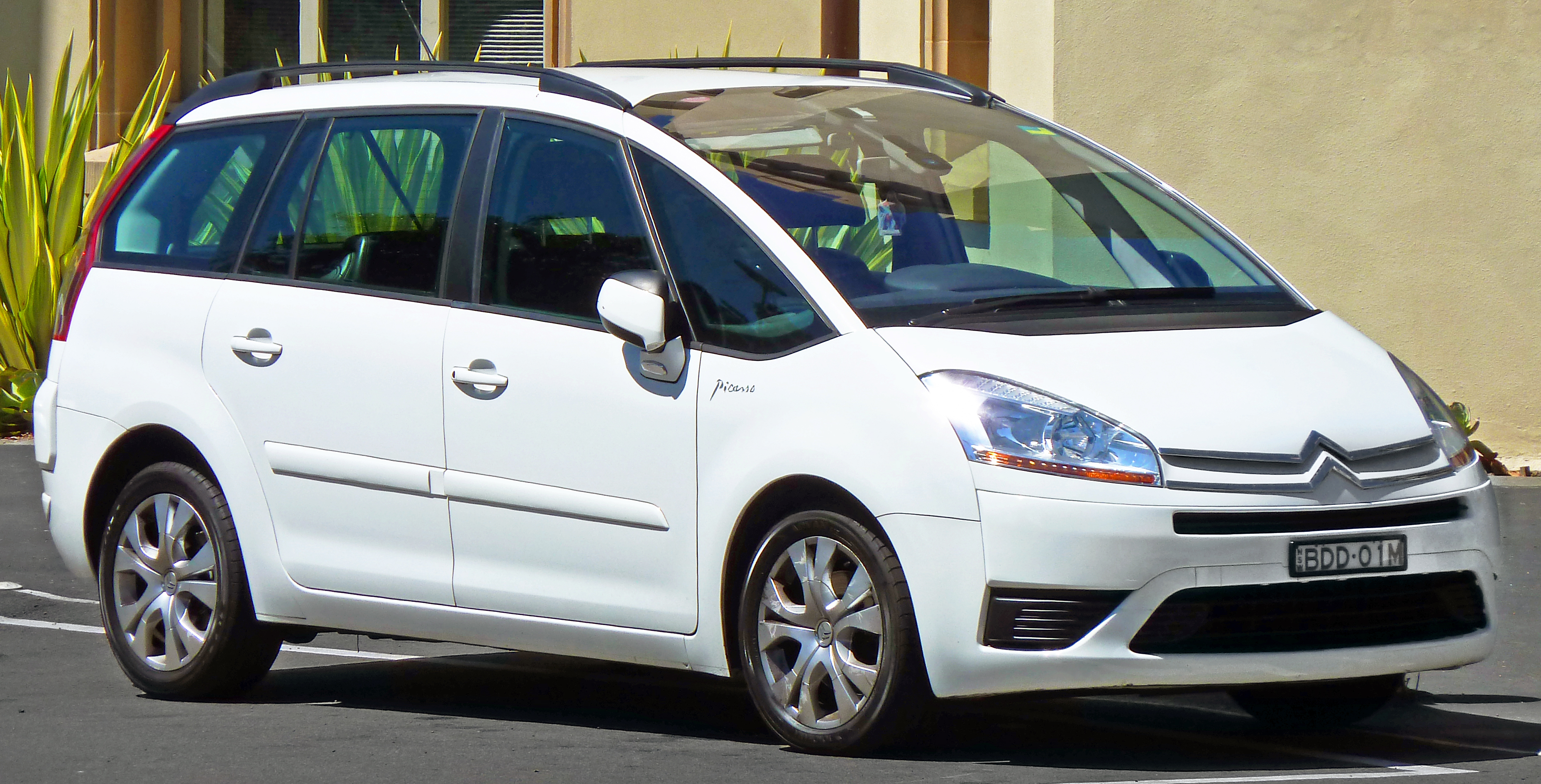 2007–2010 Citroën C4 Picasso wagon. Photographed on Conservatorium Road, Sydney, New South Wales, Australia.